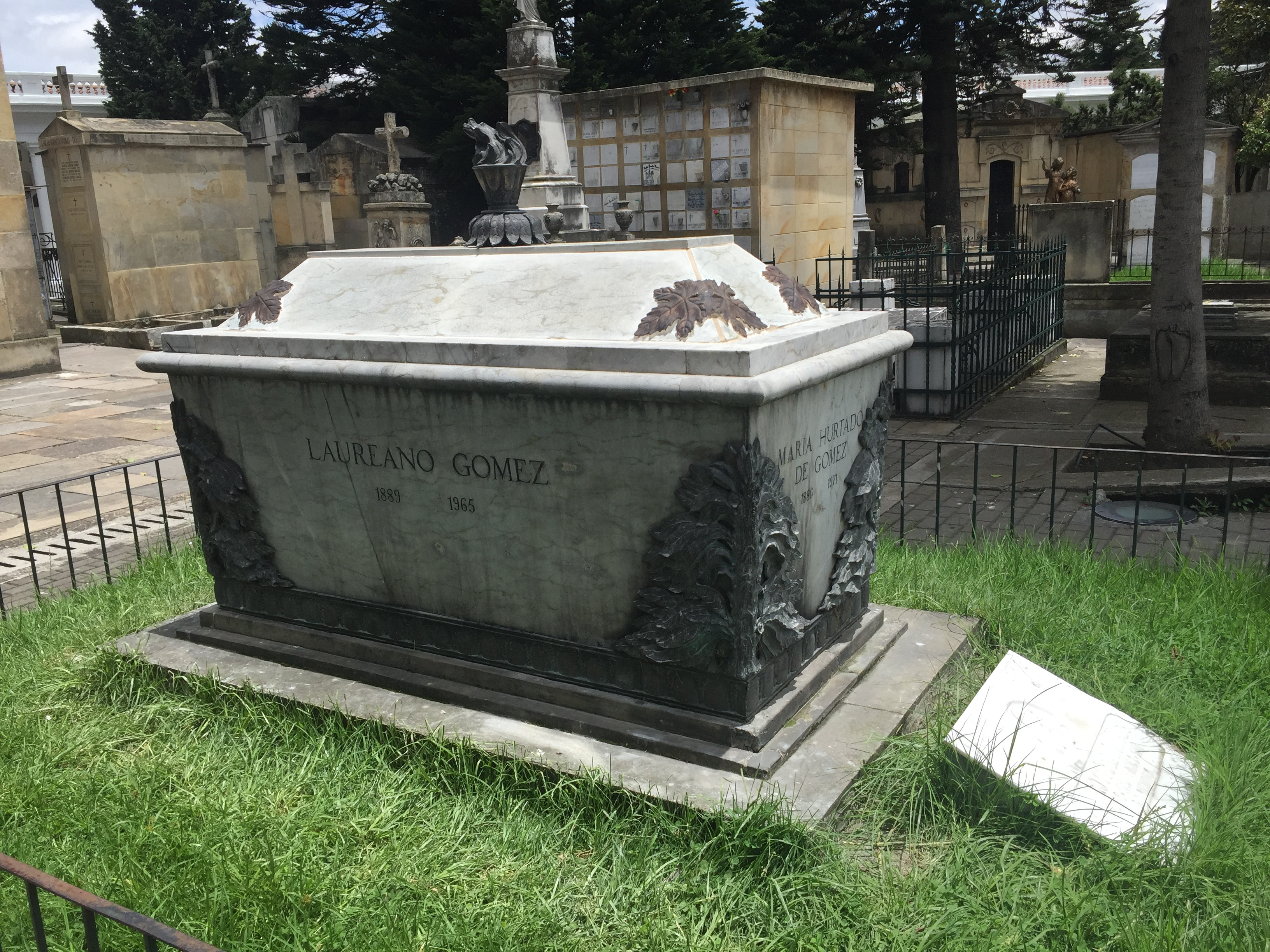 Grave of Laureano Gómez, President of Colombia.